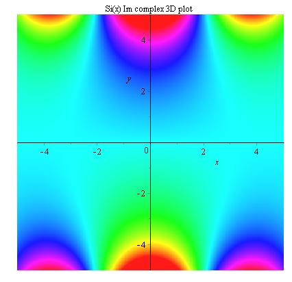 Si(x) Im complex density plot